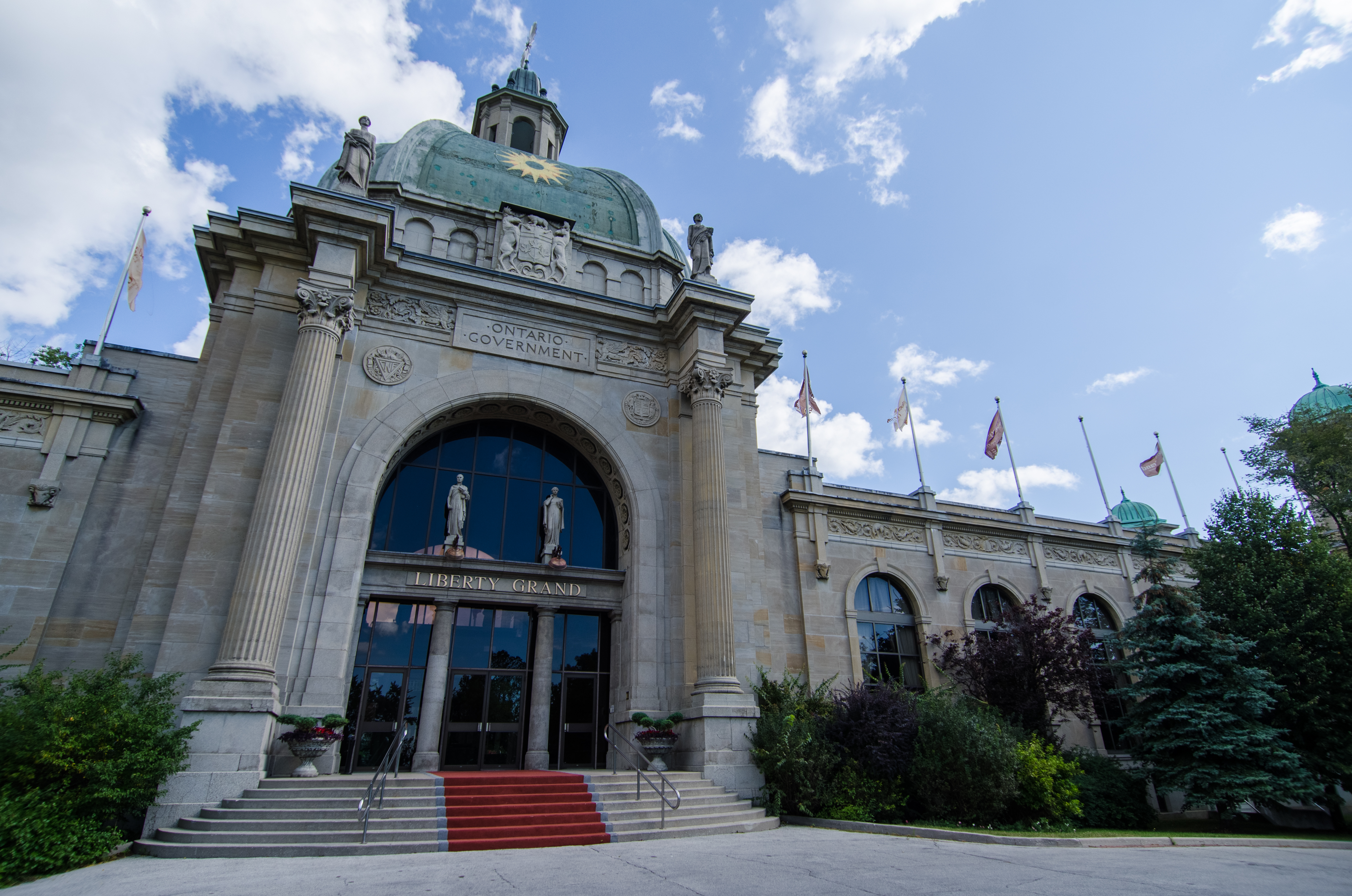 Entrance to Liberty Grand at CNE Ontario Government Building in Toronto